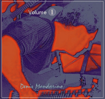 Photograph of a painting with the consent of the author. Painted in 1997.